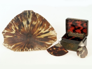 a piece tortoise shell and some jewellery made out of it